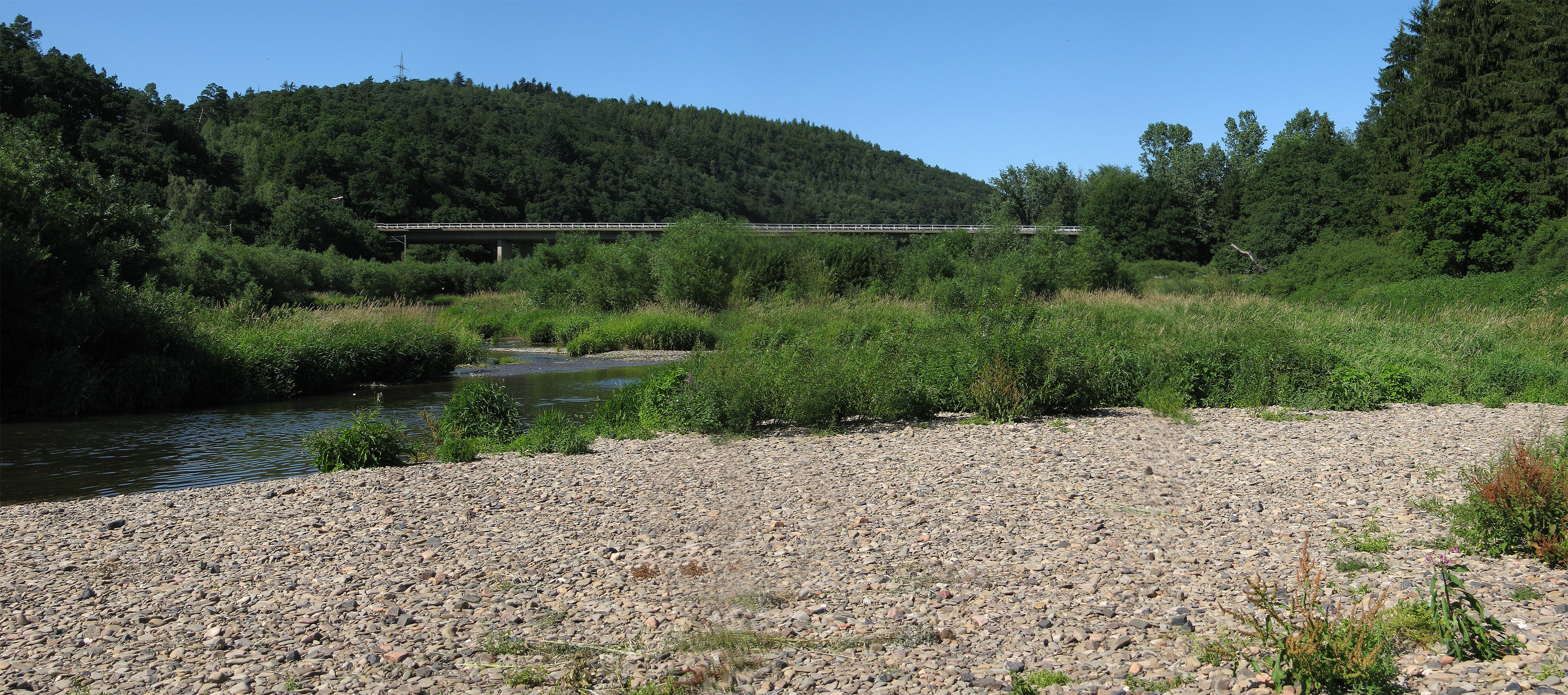 The confluence of the Ohm into the Lahn